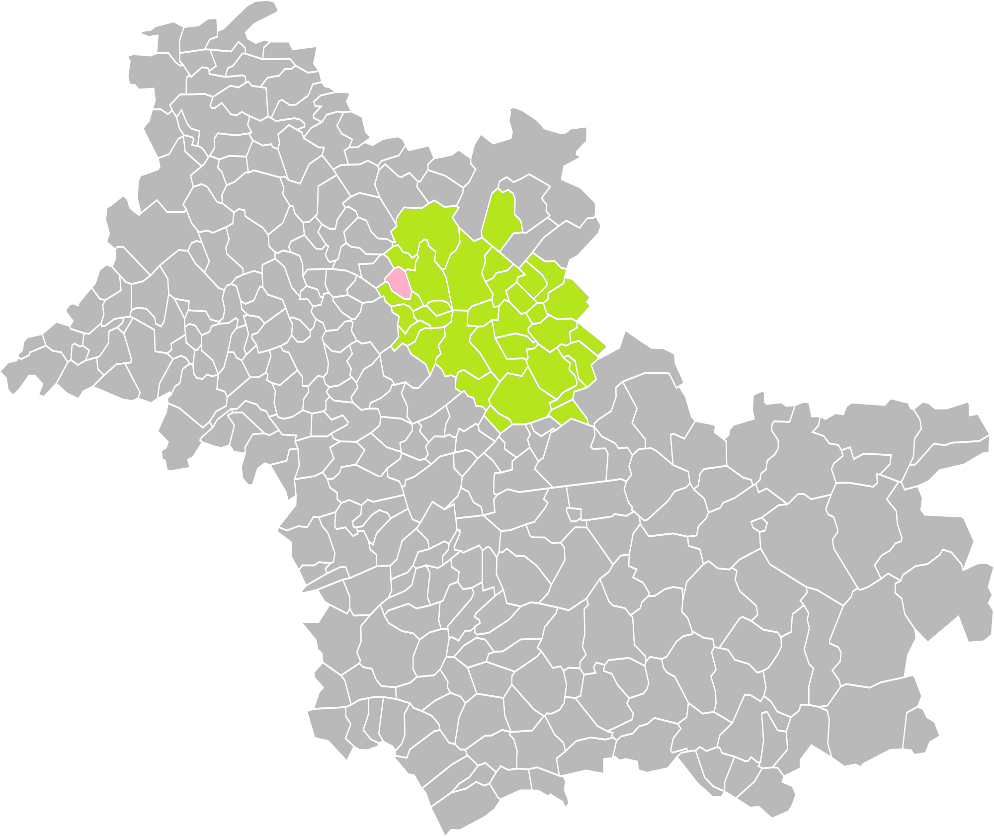 Location of the commune of Épiais in the Communauté de communes de la Beauce-Val de Loire (Loir-et-Cher)